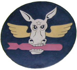 Emblem of the 347th Bombardment Squadron (World War II)